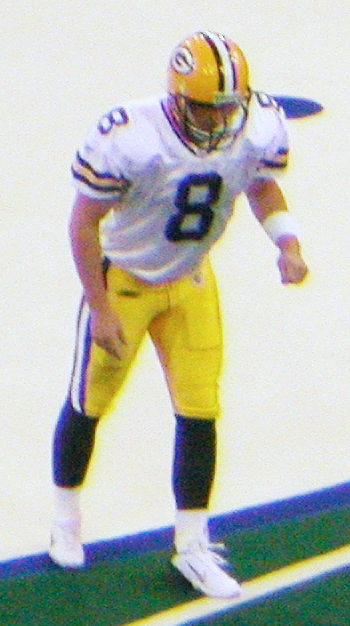 Ryan Longwell before a kick in 2004